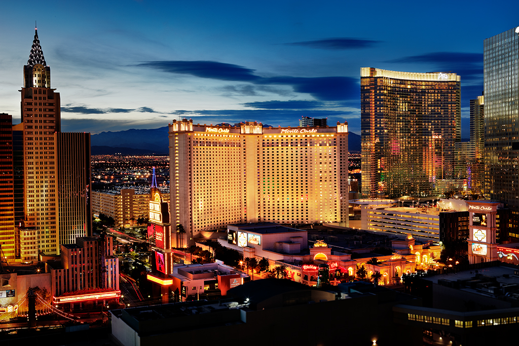 Exterior view of Monte Carlo Resort and Casino at sunset released by MGM Resorts International under Attribution-ShareAlike Creative Commons license specifically for use on Wikipedia.